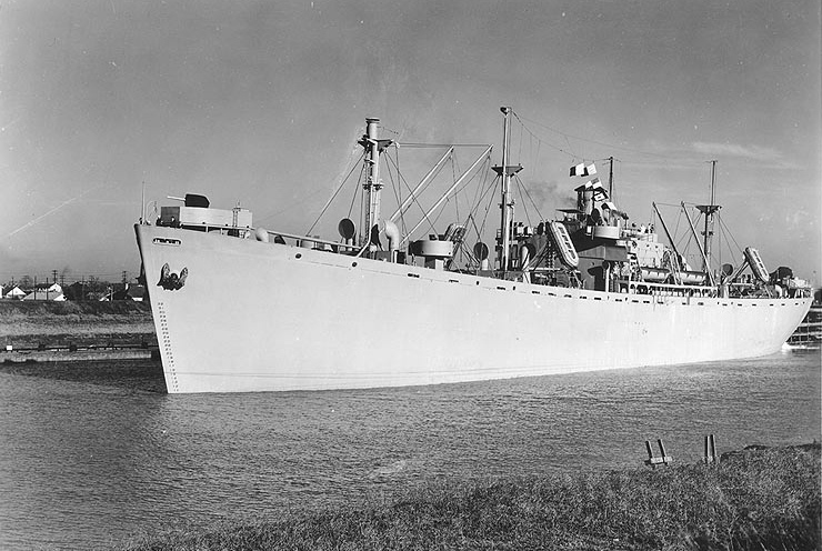 S.S. Norman O. Pedrick (American "Liberty" Tanker, 1944) Steams away from her builder's yard upon completion, 15 February 1944. Constructed by the Delta Shipbuilding Company, New Orleans, Louisiana, this ship was delivered to the Navy on the following day and placed in commission as USS Stag (IX-168). She was later converted to a water distilling ship during March-August 1944 and redesignated AW-1.